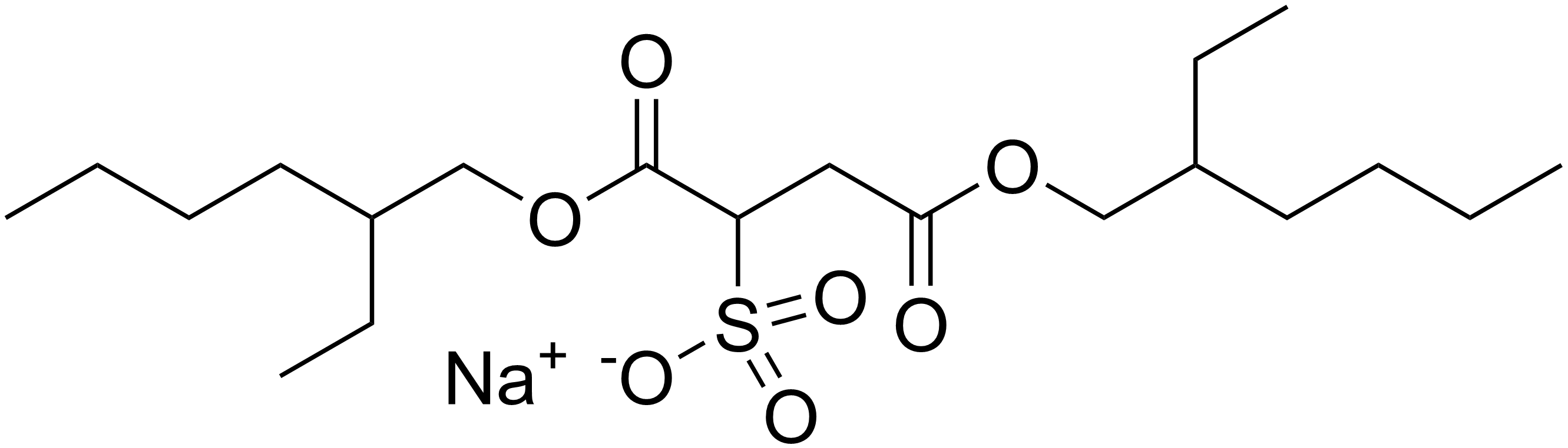 Chemical structure of Dioctyl sodium sulfosuccinate; Aerosol OT; AOT; Sodium bis(2-ethylhexyl) sulfosuccinate; Docusate sodium; Sodium dioctyl sulfosuccinate